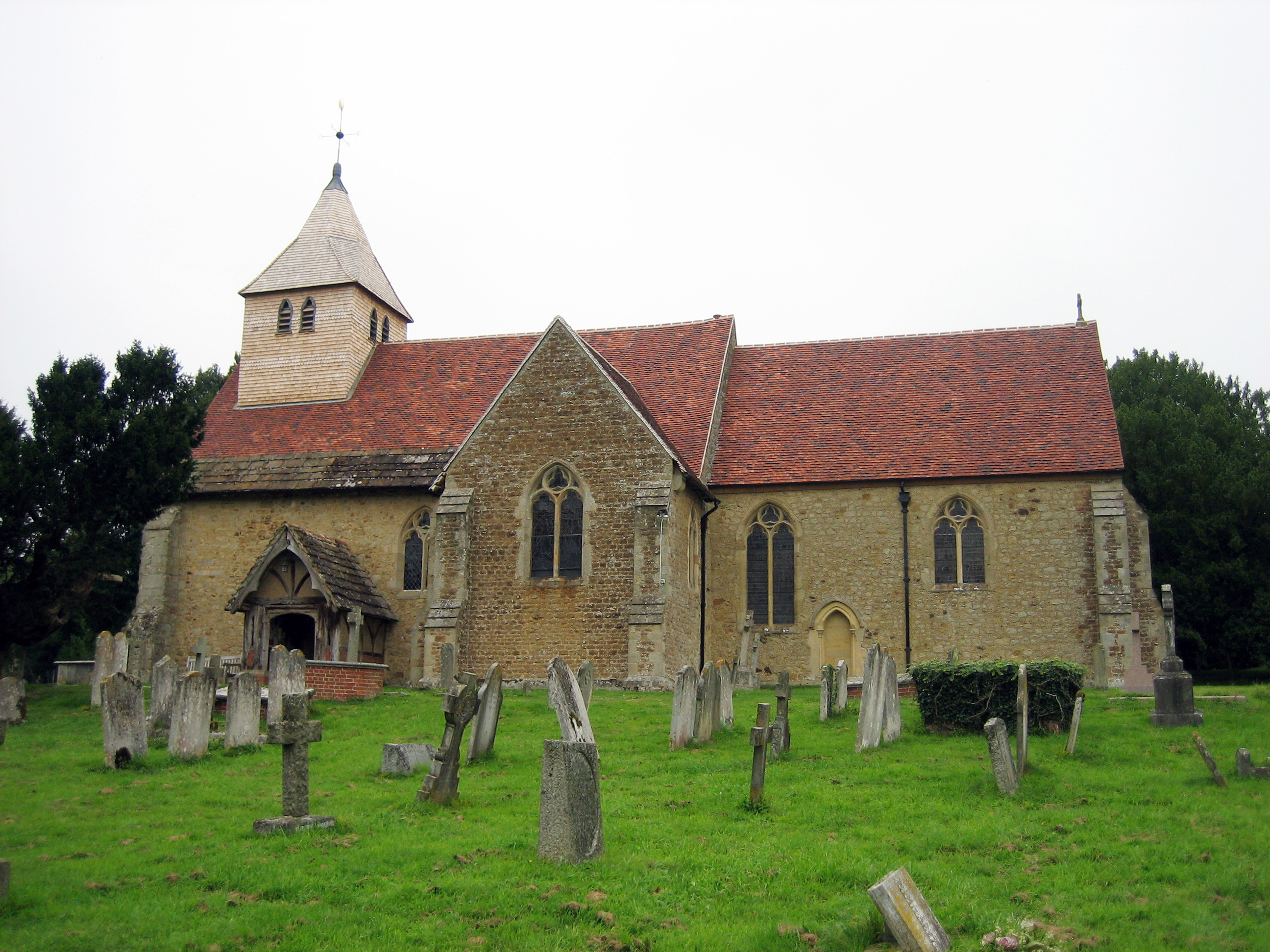 The Norman period St. Mary and All Saints church in Dunsfold, Surrey, England.